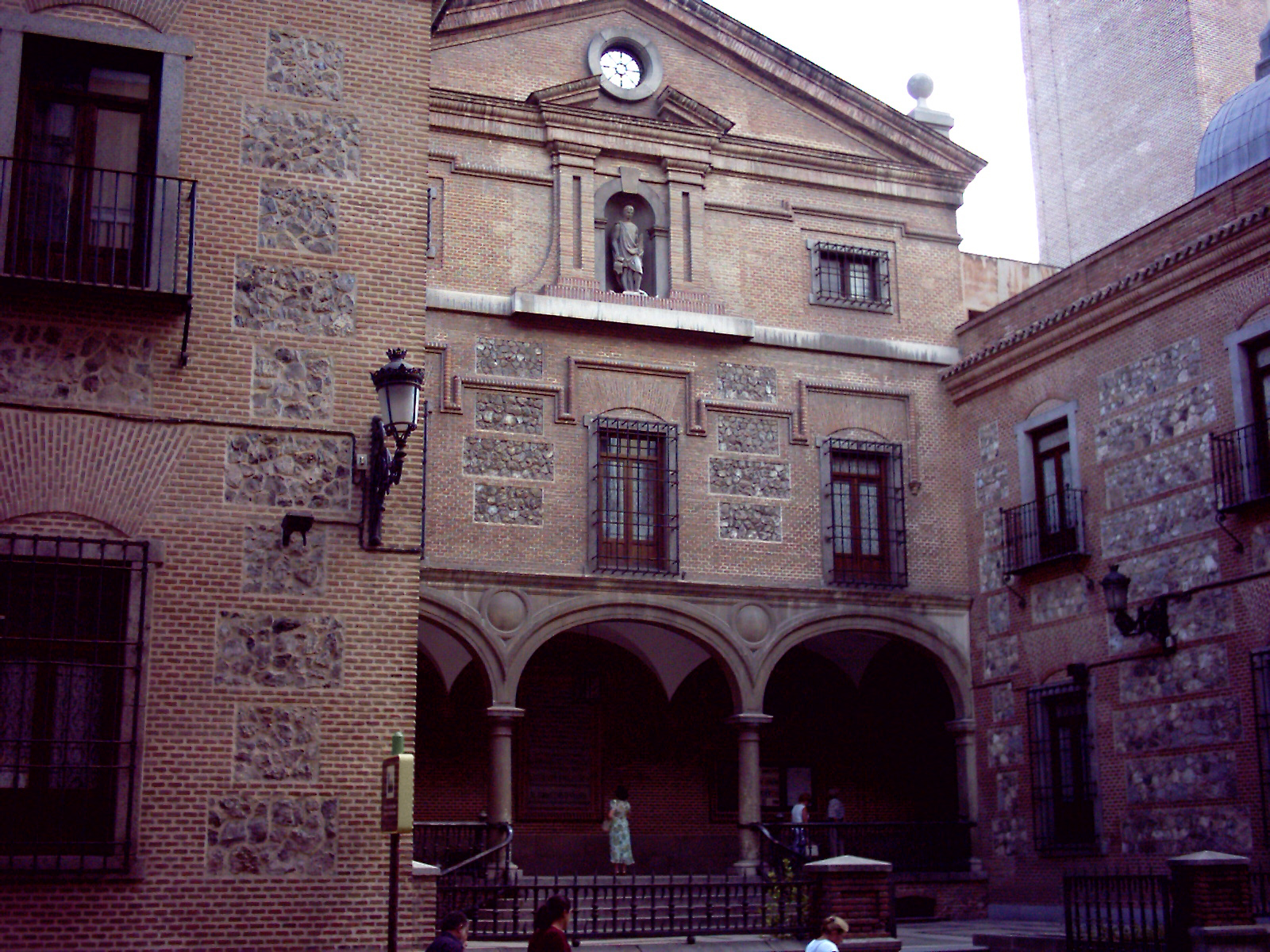 Iglesia de San Ginés, en Madrid. Church of San Ginés. Madrid, Spain.